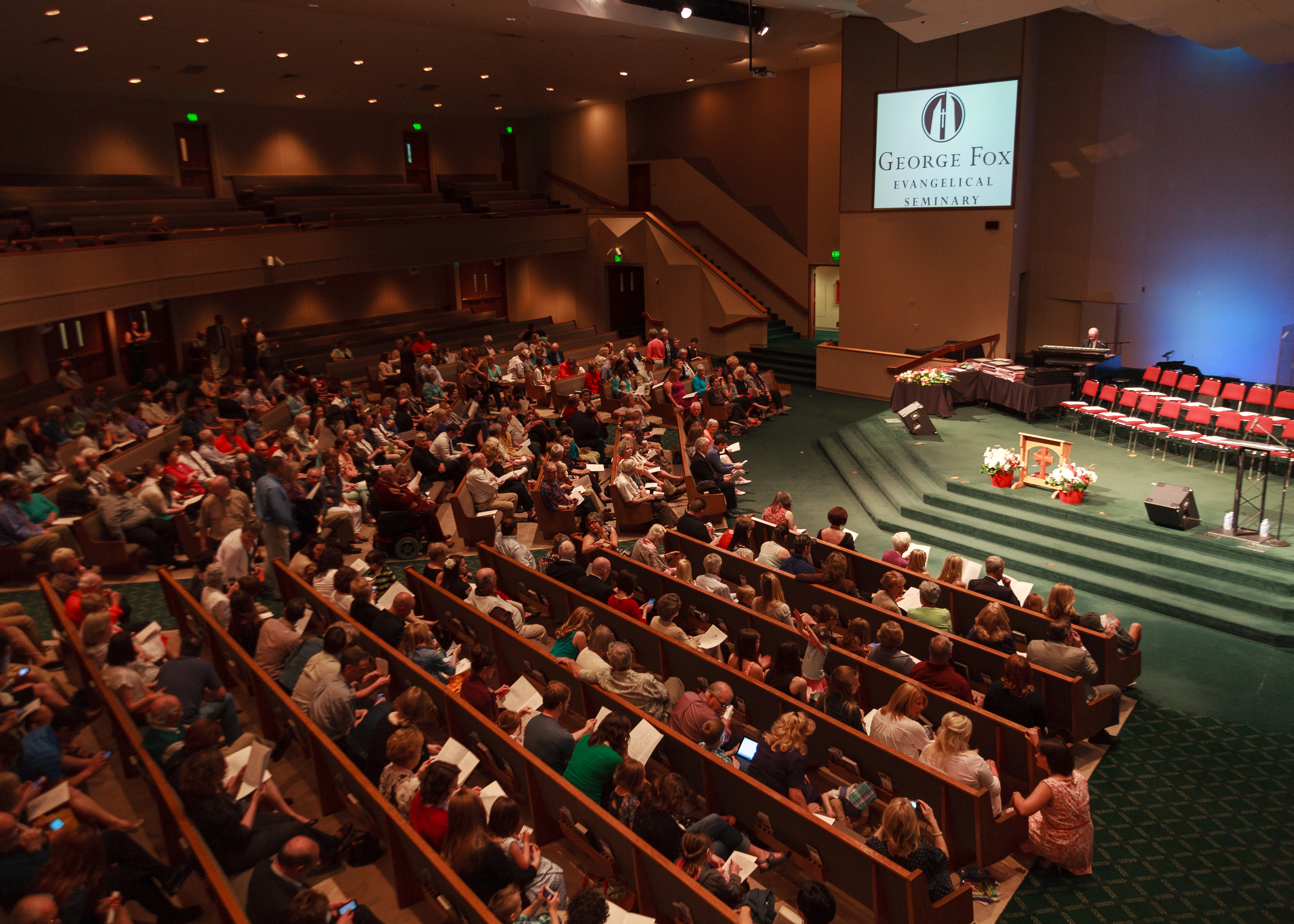 Family and friends are in place, anticipating their graduate walking across the stage.